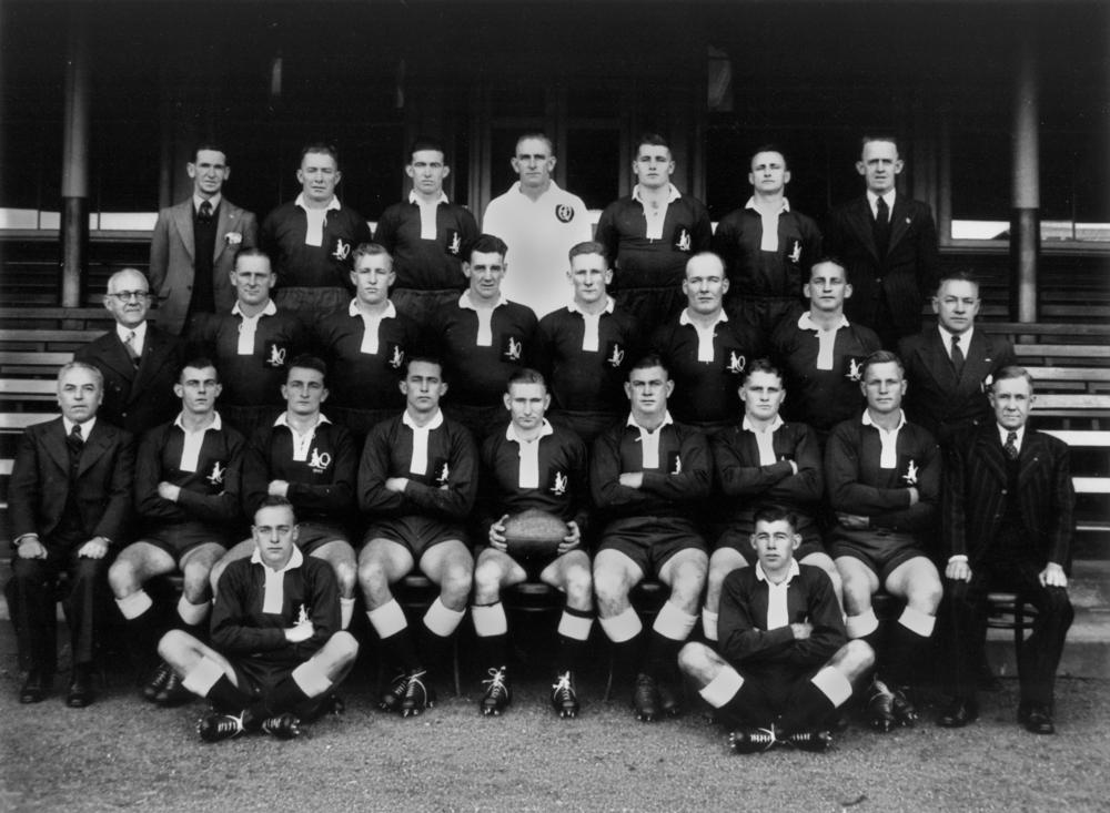 Queensland state rugby league team 1949. Players include - W. Tyquin (Captain), D. O'Connor, D. Flannery, L. Pegg, D. McGovern, R. Pegg, N. Linde, H. Griffiths, D. Creedy, W. Thompson, L. Stephens, D. Anderson, H. Crocker, D. Hall, A. Thompson, R. Nuttall, C. Woods, R. Griffiths, H. Benton, L. Kenny. Officials include - L. Furness (Trainer), F. Neumann (Coach), S. W. Chambers (Referee), F. Russell and D. G. Green (Visitors), D. MacLean and J. Simmonds (Co-managers). Not everyone in the photograph is identified.